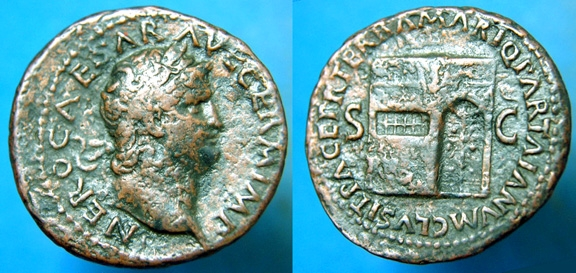 Nero. Æ As Struck 66 AD. Nero Æ As. NERO CAESAR AVG GERM IMP, laureate head right / PACE P R TERRA MARIQVE PARTA IANVM CLVSIT S-C, the Temple of Janus, latticed window to left, garland hung across, closed double doors right.